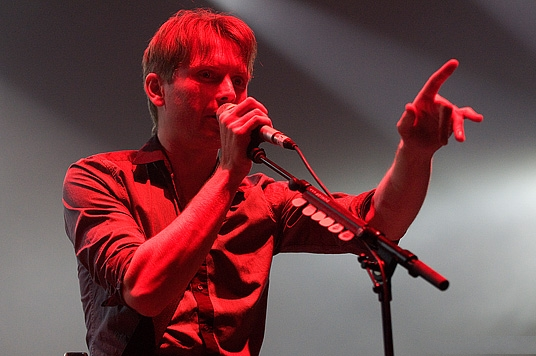 Alex Kapranos, singer from the band Franz Ferdinand. Performing a live concert in the Espacio Movistar, Barcelona, November 2008. This picture is under a Creative Commons License. Visit to find the images you need for free at larger sizes. Read carefully the legal conditions and do a fair use of the pictures, thank you. If you want to use one of the pictures in a project, please let me know. Esta imagen está bajo una Licencia Creative Commons. Visita para encontrar las imágenes que necesites a tamaños mayores. Lee atentamente las condiciones de uso y respeta la licencia, gracias. Si quieres usar alguna imagen para tu proyecto, hazmelo saber. Questions, doubts, have you used an image? Let me know: Preguntas, dudas, has utilizado alguna imagen? Dímelo: More/Mas: Licencia / Faq / Blog